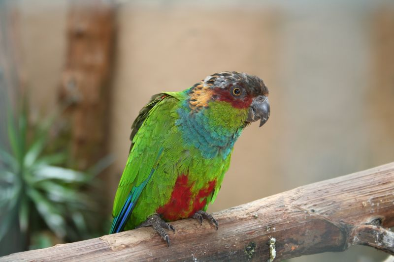 Ochre-marked Parakeet (also known as Blue-chested Parakeet, Blue-throated Parakeet, or Blue-throated Conure) at Palmitos Park, Gran Canaria, one of the Canary islands, Spain.